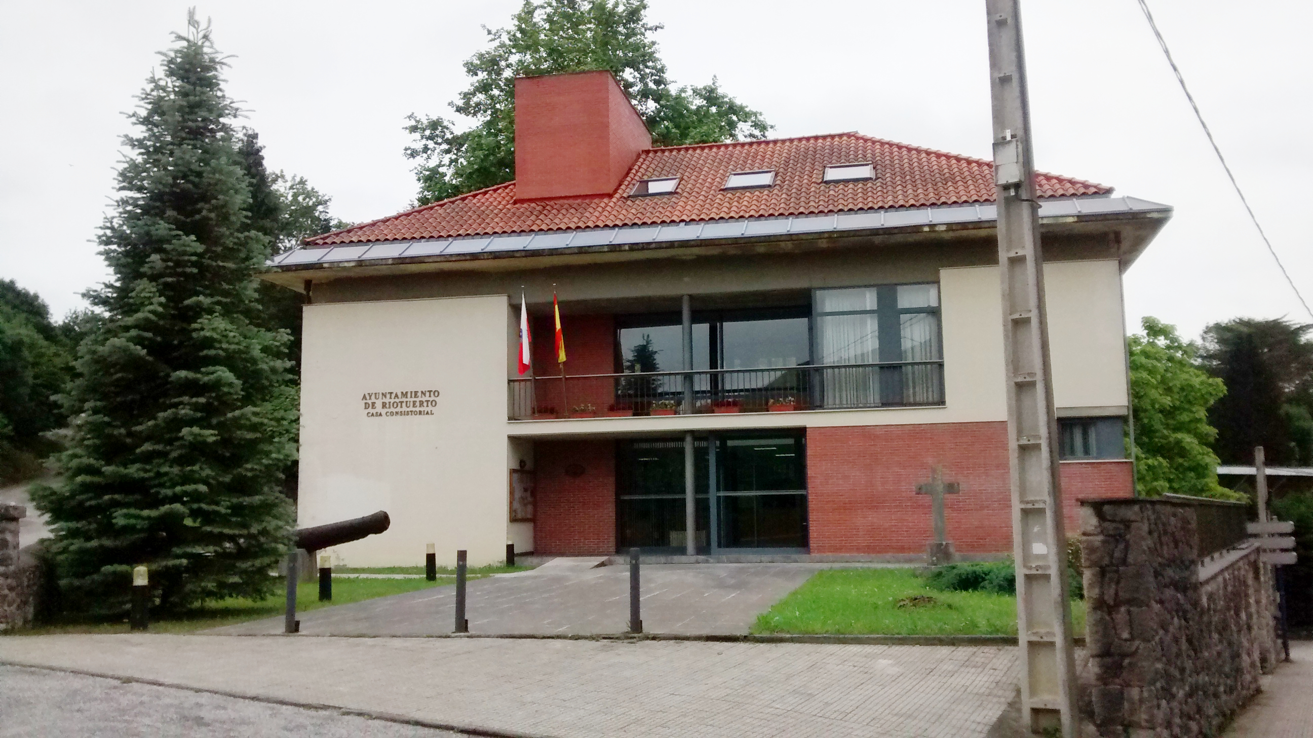 Town hall of Riotuerto, in La Cavada (Cantabria, Spain)